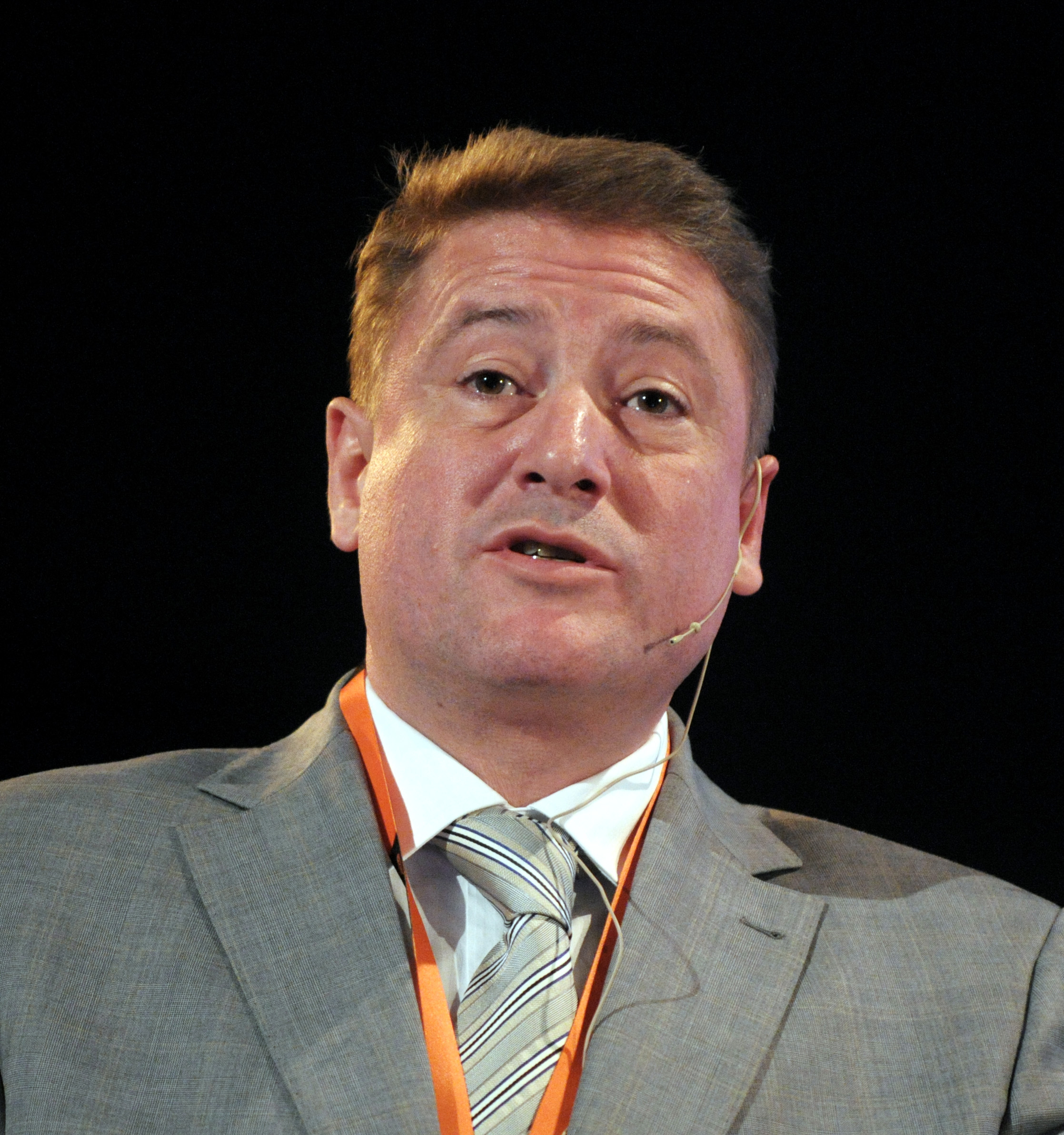 Georgy Valentinovich Boos, Governor, Kaliningrad Region, Russian Federation. Photo by Johannes Jansson.